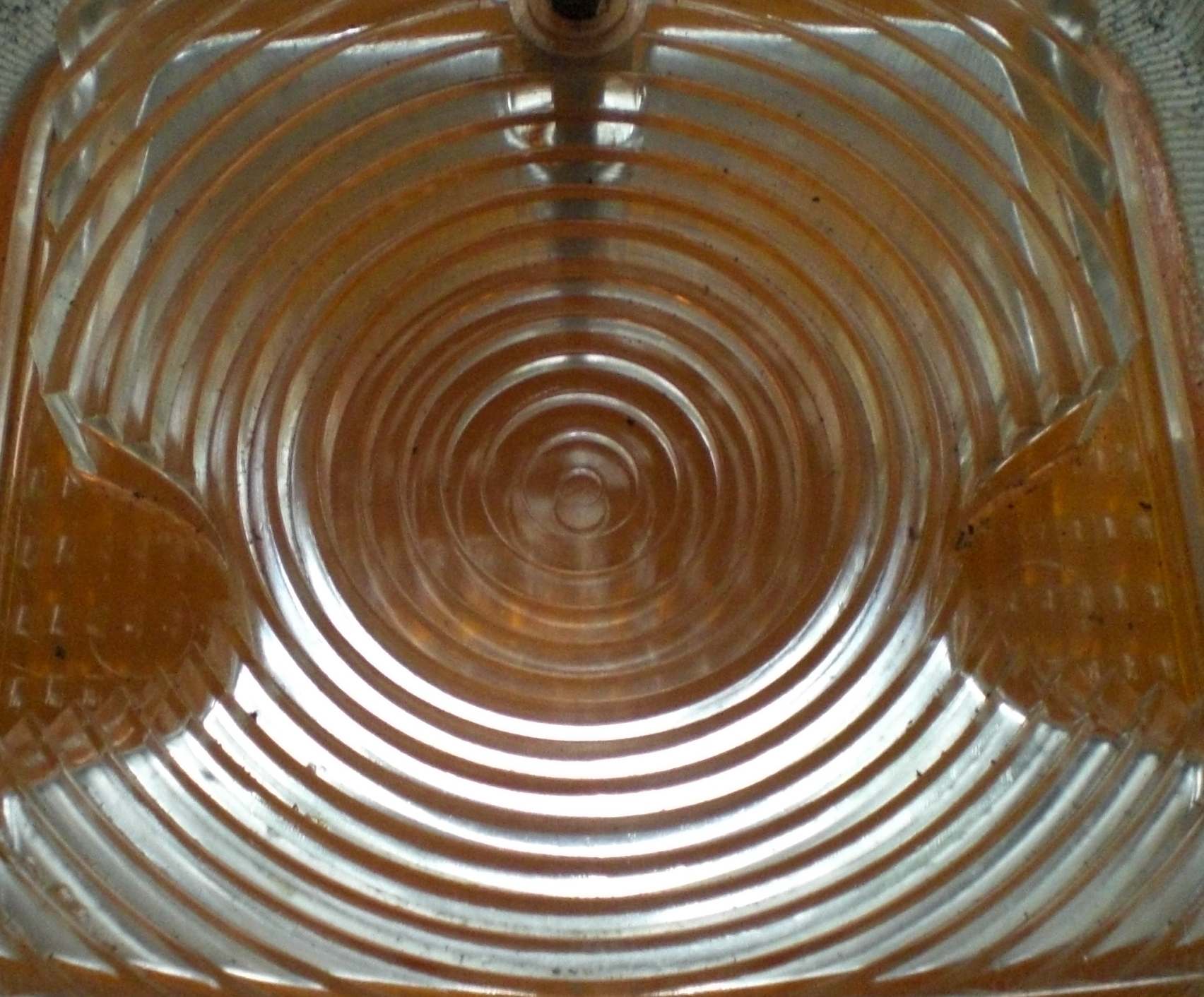 Fresnel lens in the rear light of a car